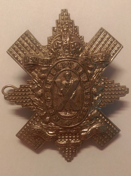 Photo of Highland Cyclist Battalion Cap Badge from personal collection